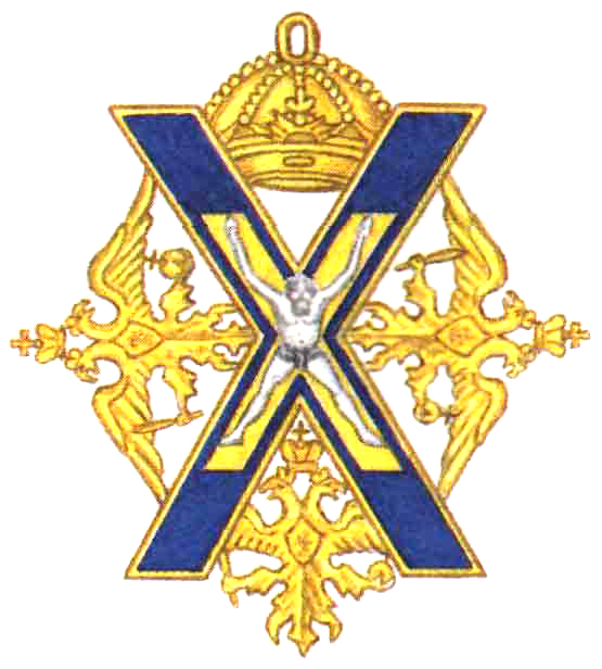 Badge of the Lifeguard Preobrazhensky Regiment